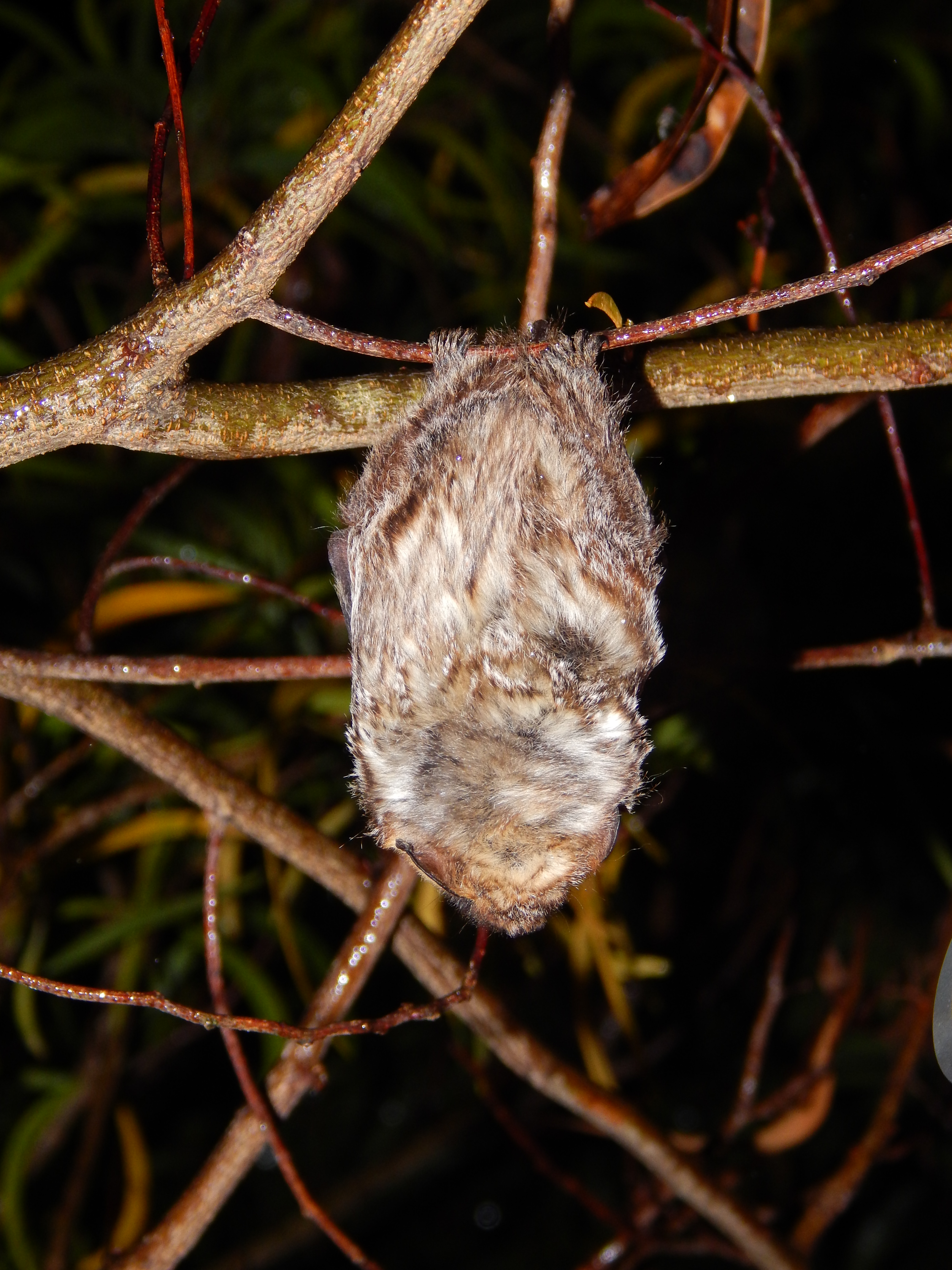 Acacia koaia (Koaia, dwarf koa) Habit with Hawaiian Hoary bat release at Hawea Pl Olinda, Maui, Hawaii. June 25, 2014 #140625-0818 Image Use Policy